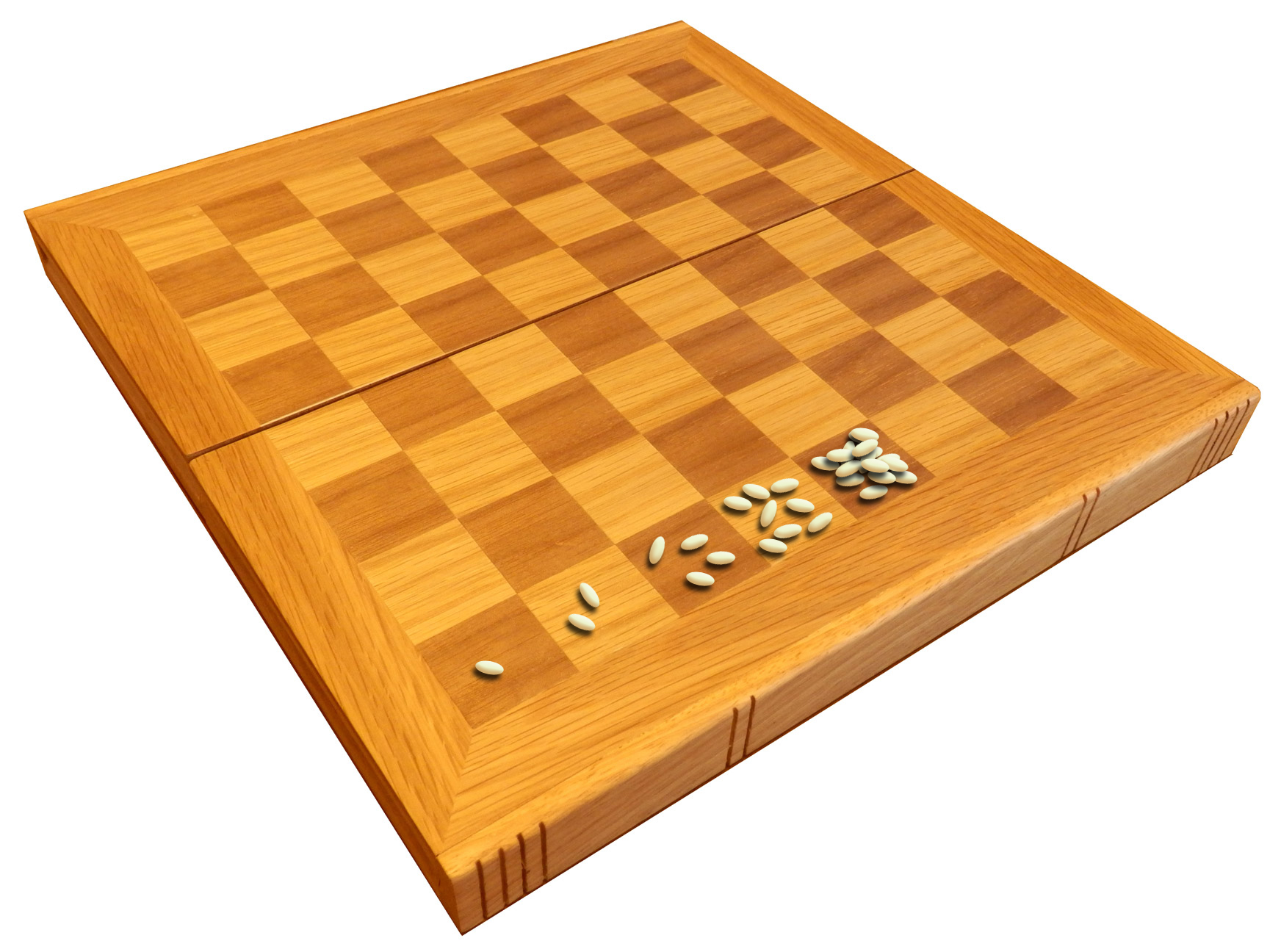 A depiction of the wheat and chessboard (or rice and chessboard) problem.